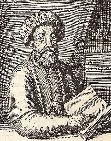 Sabbatai Zevi